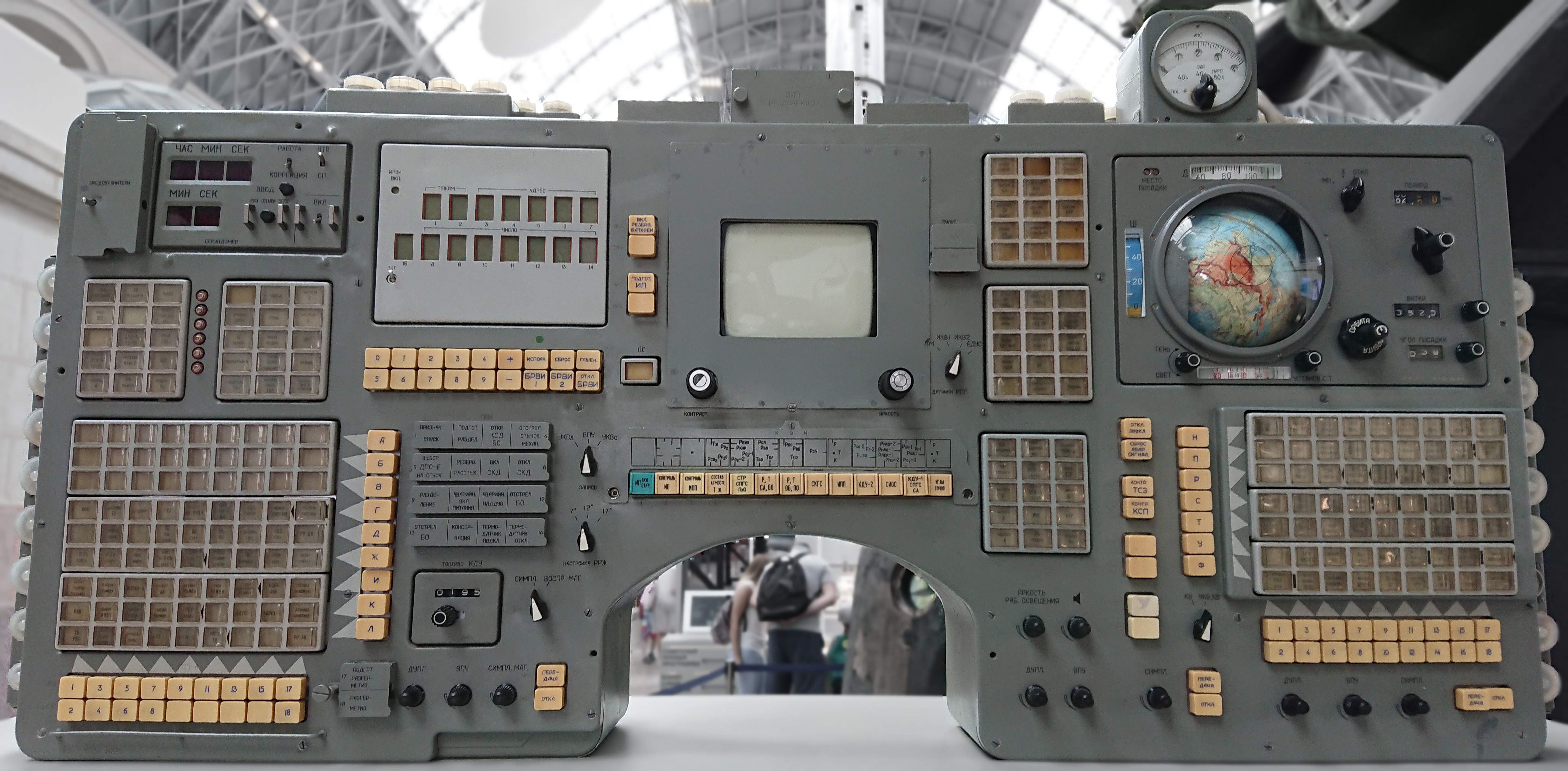 Cosmonaut's panel of the spacecraft Soyuz 7K-VI 11K732. SOKB Space Technology (JSC Research Institute of Aviation Equipment). Collection of the Polytech. Russia, Moscow, BDNKh, Pavilion № 32 "Cosmos".